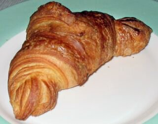 Croissant, of unknown origin, associated with France. Cafés often offer Croissants for breakfast.